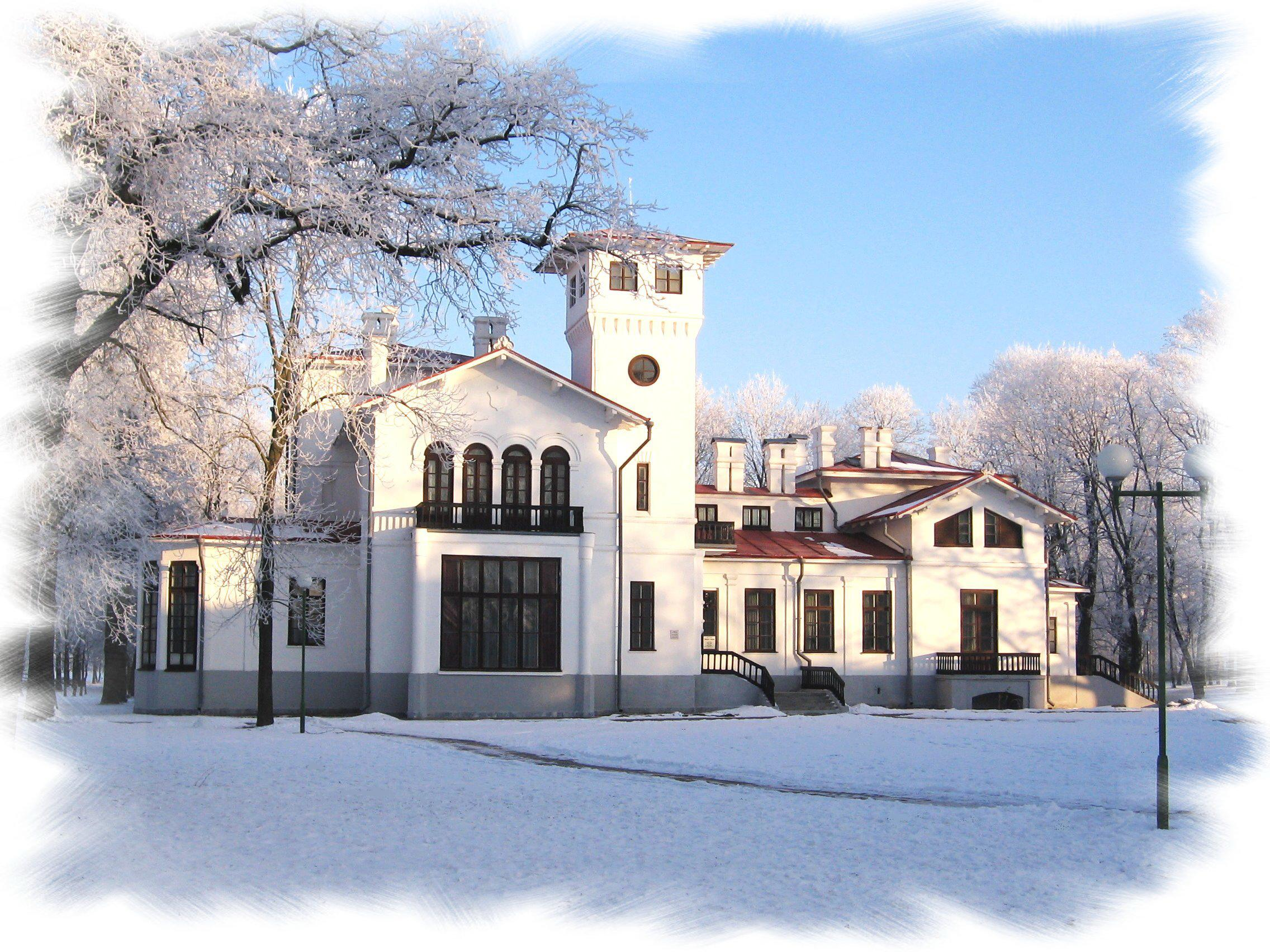 Беларуская (тарашкевіца): Пружанскі палацык. Зіма. This is a photo of Belarusian heritage monument. Reference number: 112Г000585 ( WLM)